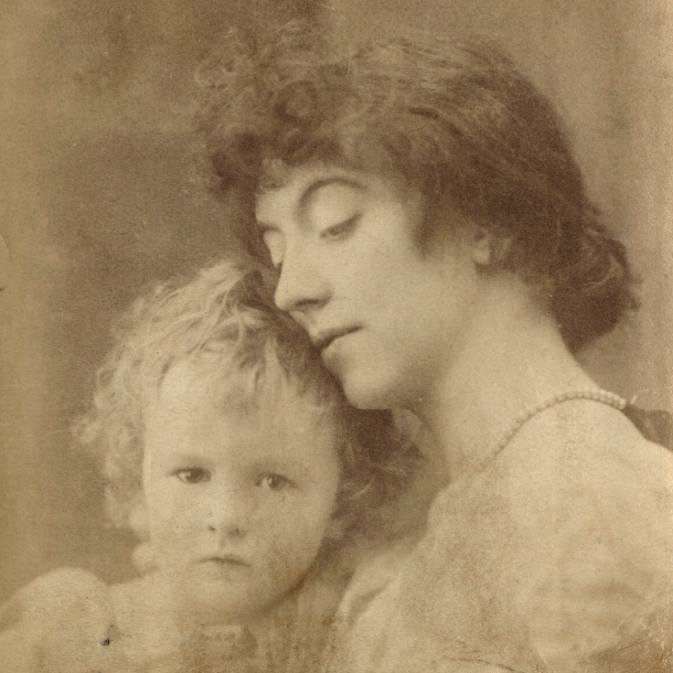 Leopold Hamilton Myers; Eveleen Myers (née Tennant) by Hayman Seleg Mendelssohn